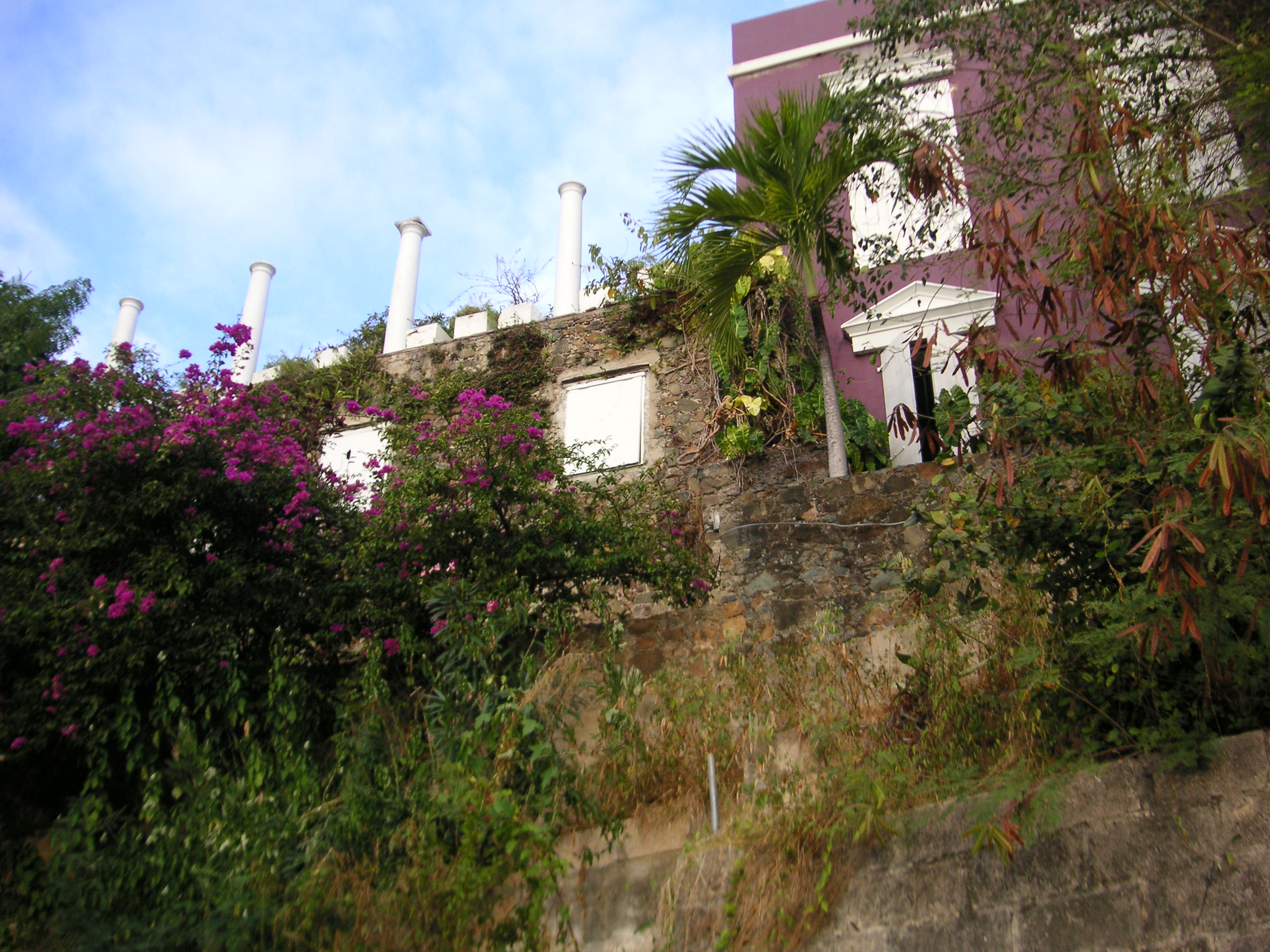 Photograph of the Bougainvillea clinic from Main Street, showing some of the foundations from the old Road Town Fort. (February 2007)